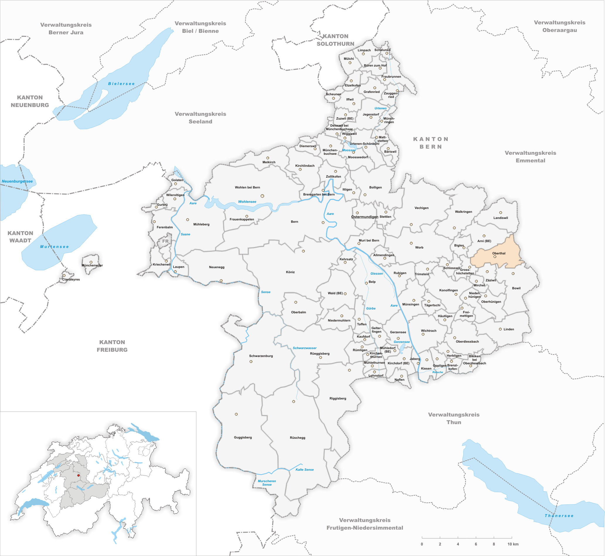 Municipality Oberthal